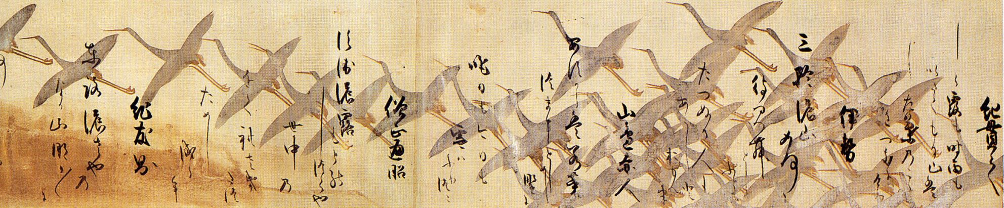 Hon’ami Koetsu and Tawaraya Sotatsu: Tsuru emaki, detail. 1605-1615. Ink, color, silver and gold on paper, 1356x34 cm. Kyoto national Museum.